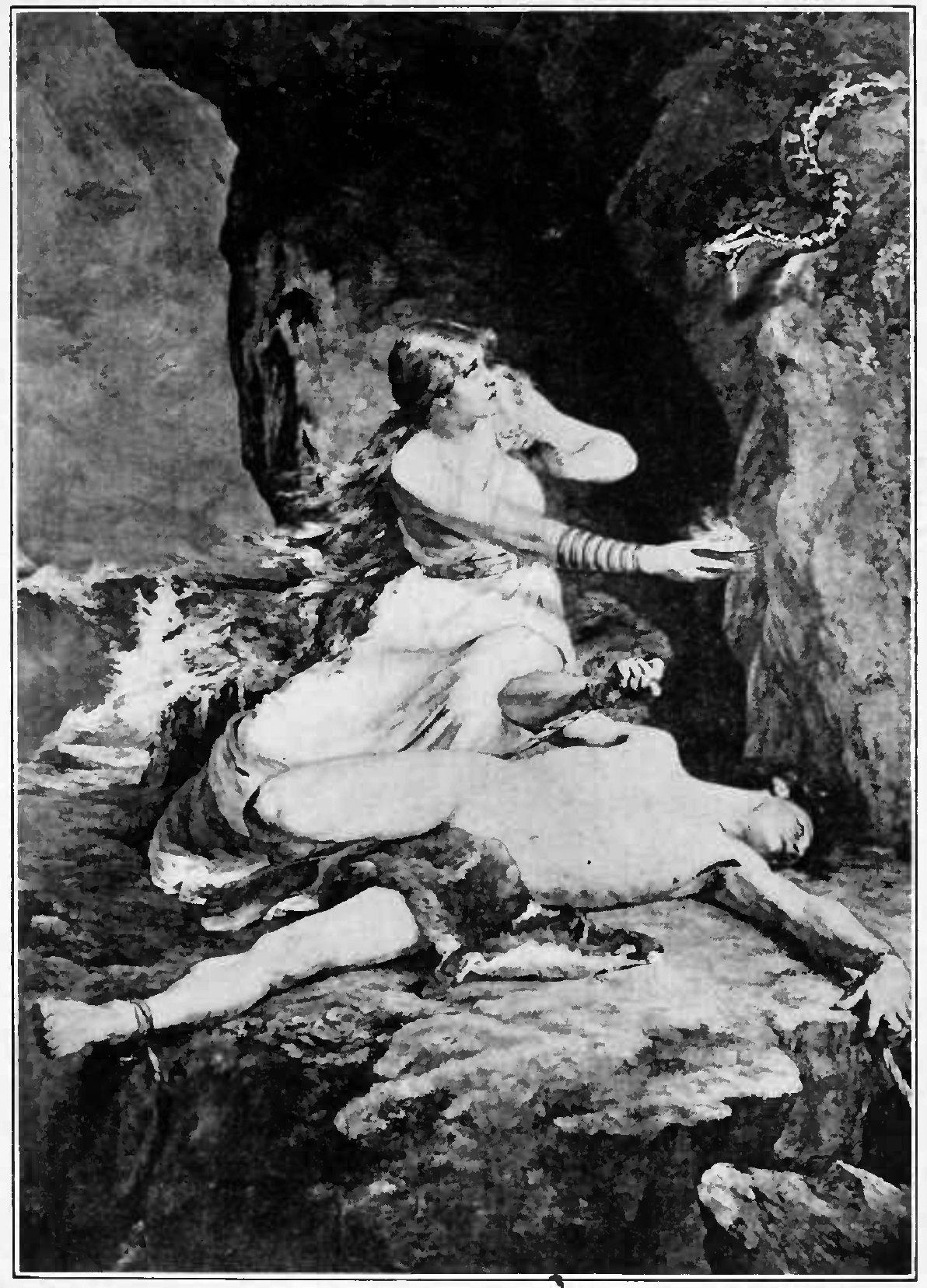 Captioned as "Loki and Sigyn". Sigyn holds a dish under the dripping venom to protect Loki.